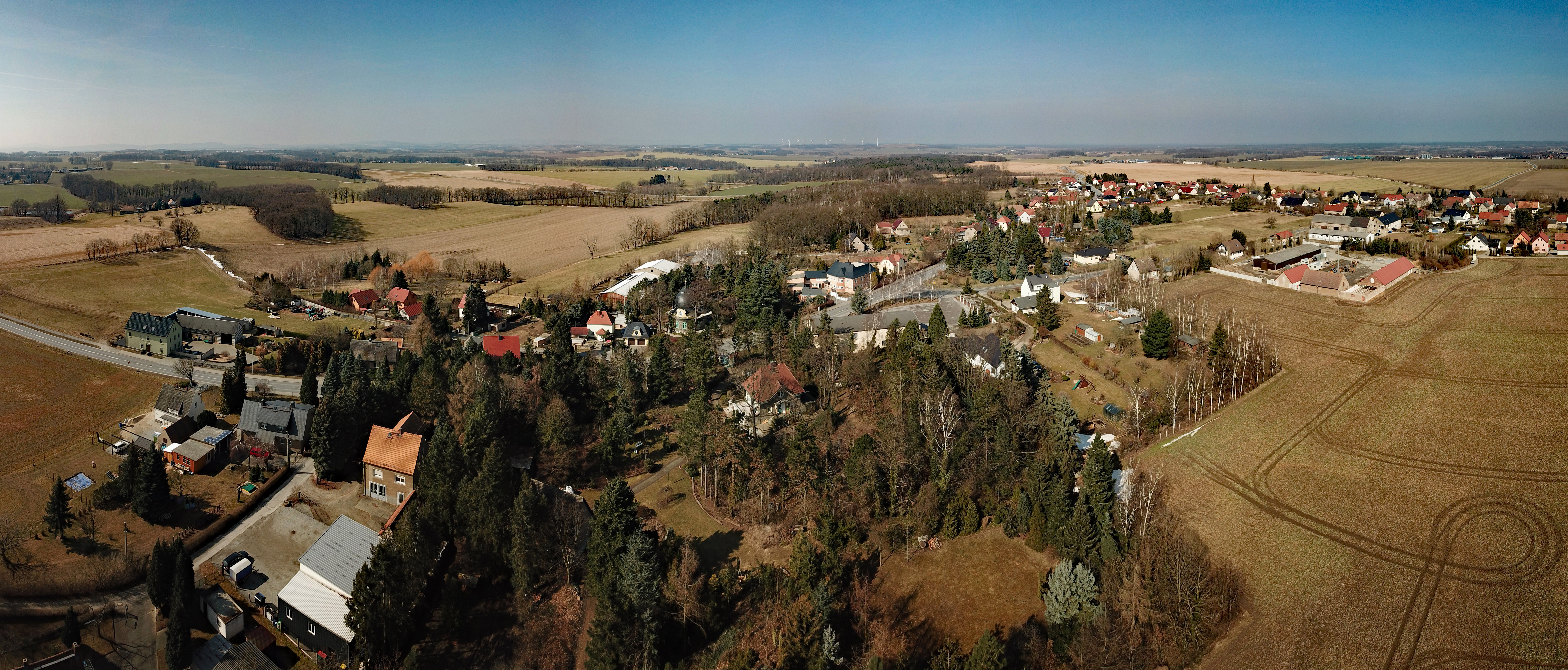 Cölln (Radibor, Saxony, Germany) Hornjoserbsce: Powětrowy wobraz Chelna.